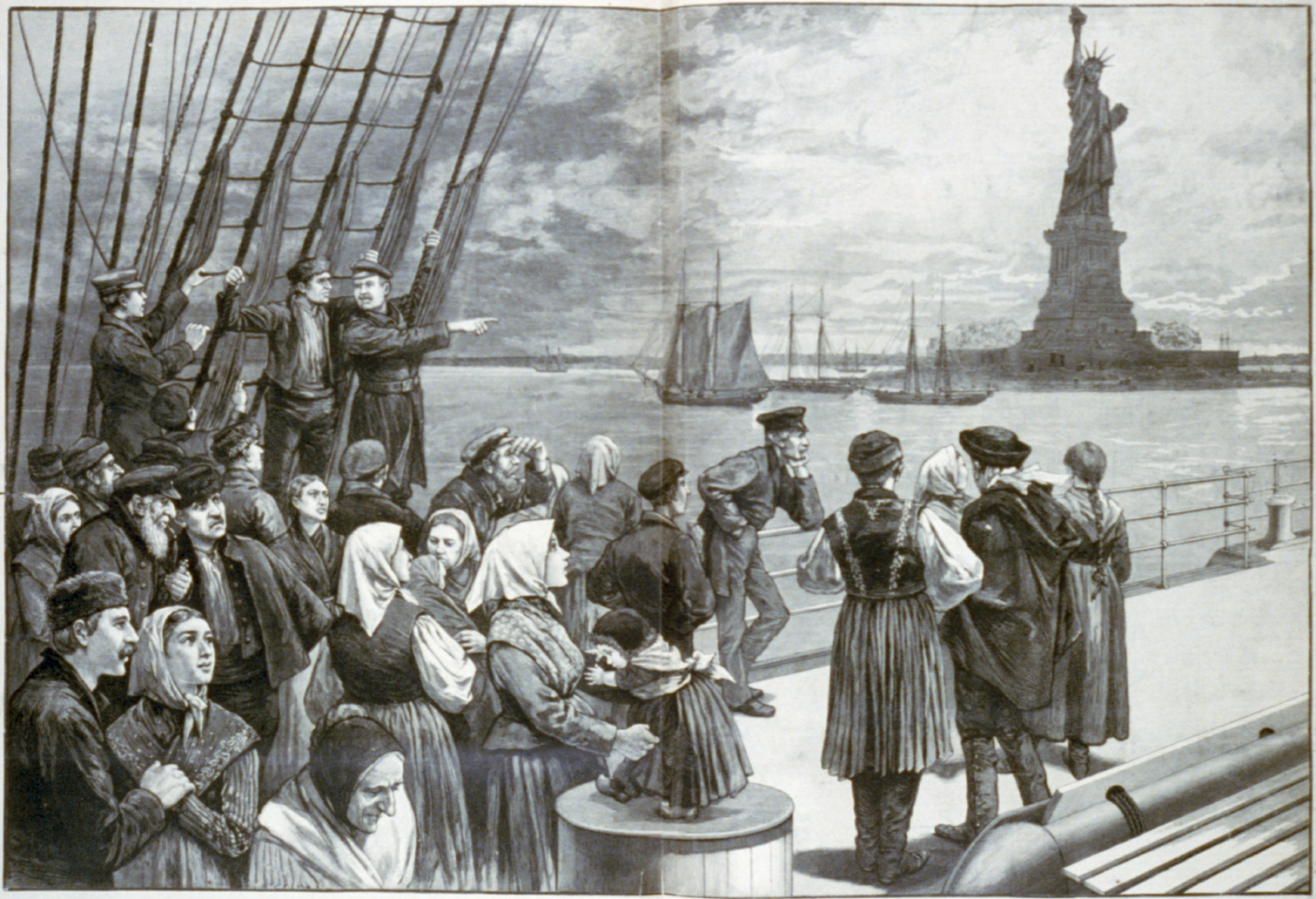 New York - Welcome to the land of freedom - An ocean steamer passing the Statue of Liberty: Scene on the steerage deck / from a sketch by a staff artist.